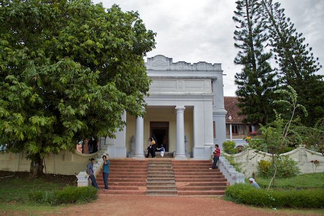 Hill palace at thrippunithara